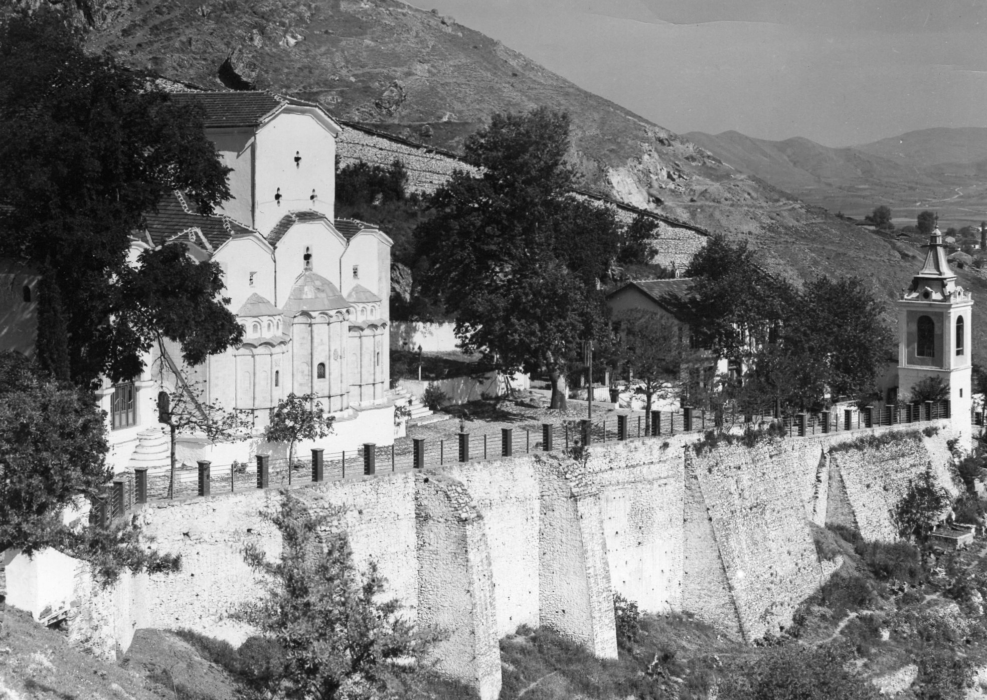 Monastery of St. Panteleimon, Veles, 1930 This media file is produced by Wikipedian in Residence in Category:Wikipedian in Residence at DARM in 2016.